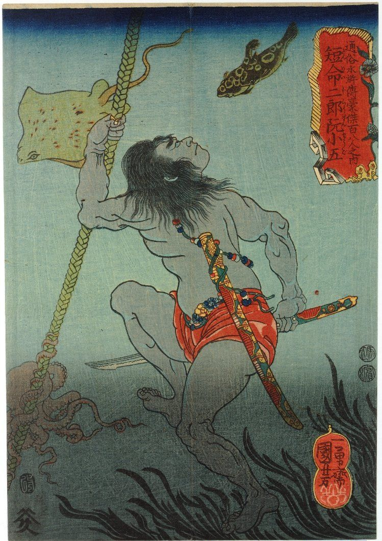 Ruan Xiaowu (阮小五) underwater holding a rope, with a sword in his other hand.